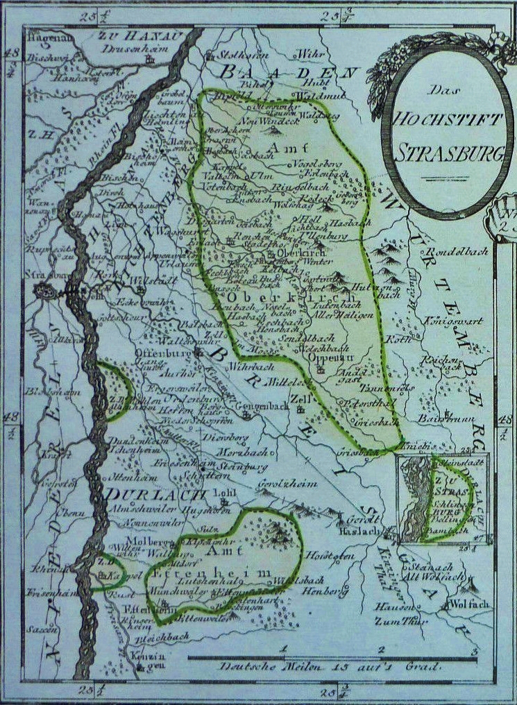 Map showing the small temporal possessions (German: Hochstift) of the prince-bishop of Strasbourg on the right bank of the Rhine. On the left bank, the prince-bishop only exercised spiritual authority over the diocese of Strasbourg ever since Alsace was progressively annexed by France during the second half of the 17th century.